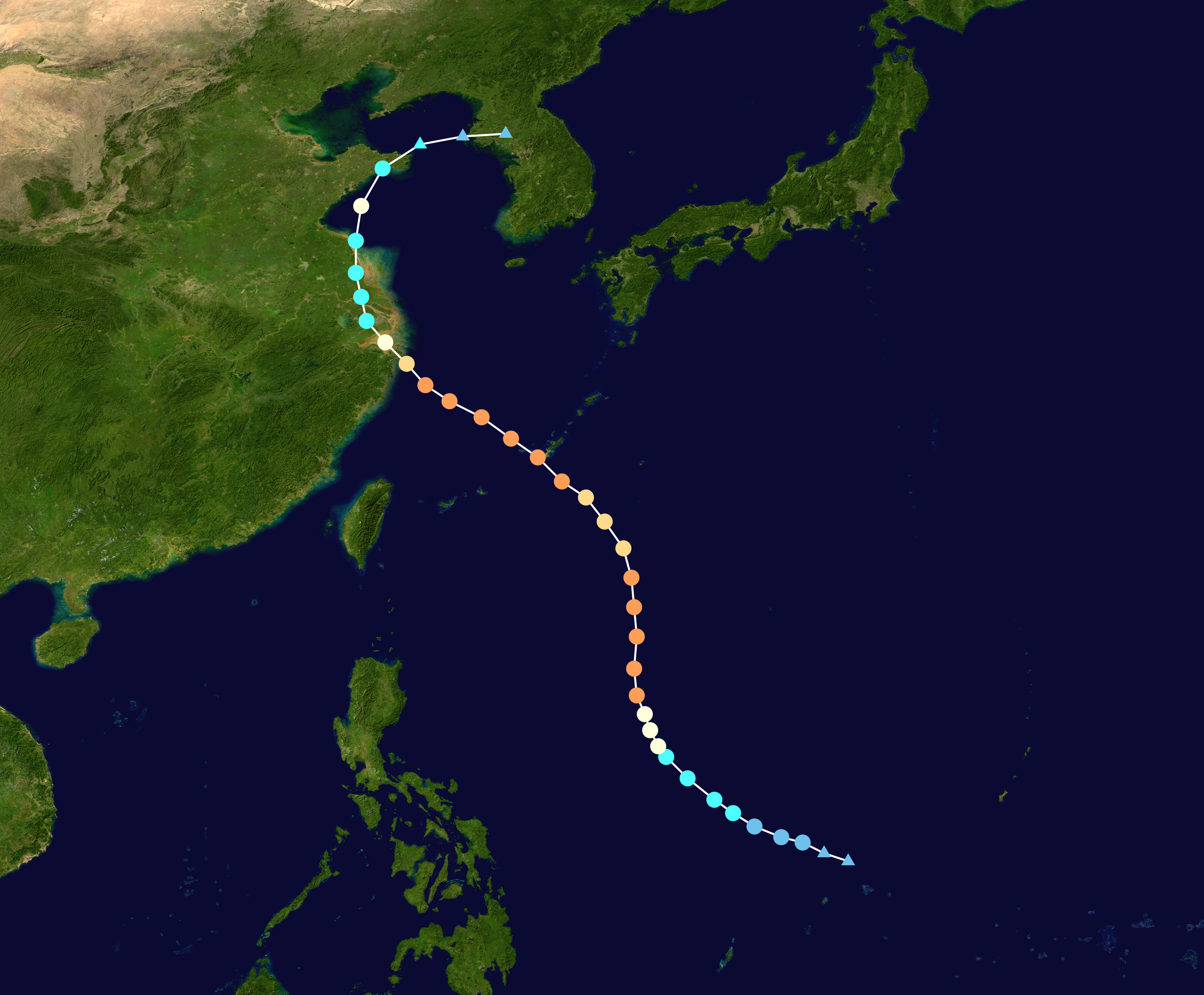 Track map of Typhoon Gloria of the 1949 Pacific typhoon season. The points show the location of the storm at 6-hour intervals. The colour represents the storm's maximum sustained wind speeds as classified in the Saffir–Simpson scale (see below), and the shape of the data points represent the nature of the storm, according to the legend below. Saffir–Simpson scale Tropical depression≤38 mph≤62 km/h Category 3111–129 mph178–208 km/h Tropical storm39–73 mph63–118 km/h Category 4130–156 mph209–251 km/h Category 174–95 mph119–153 km/h Category 5≥157 mph≥252 km/h Category 296–110 mph154–177 km/h Unknown Storm type Tropical cyclone Subtropical cyclone Extratropical cyclone / Remnant low / Tropical disturbance / Monsoon depression